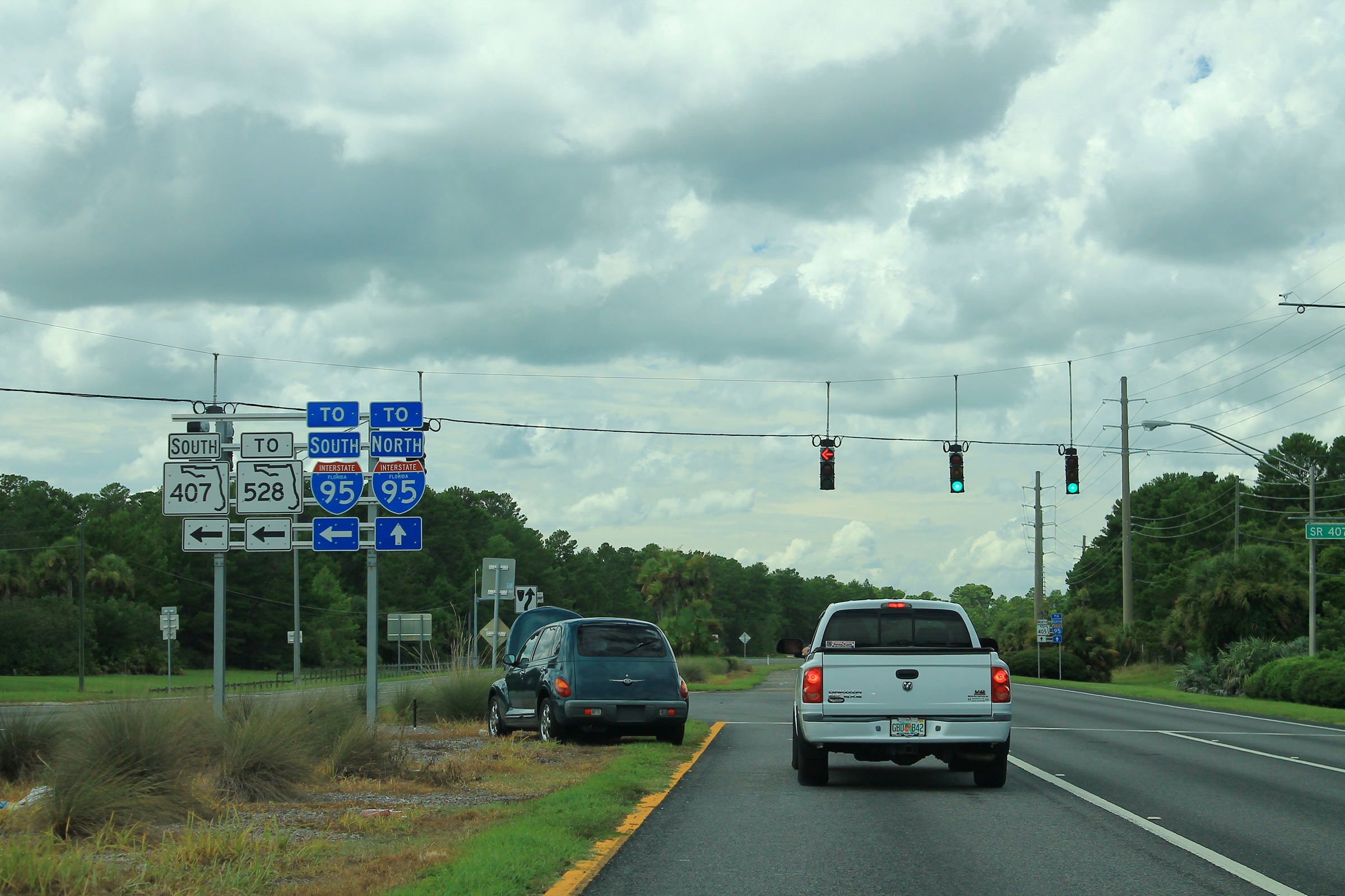 FL405nRoad-FL407s-ToFL528-Int95nsFL